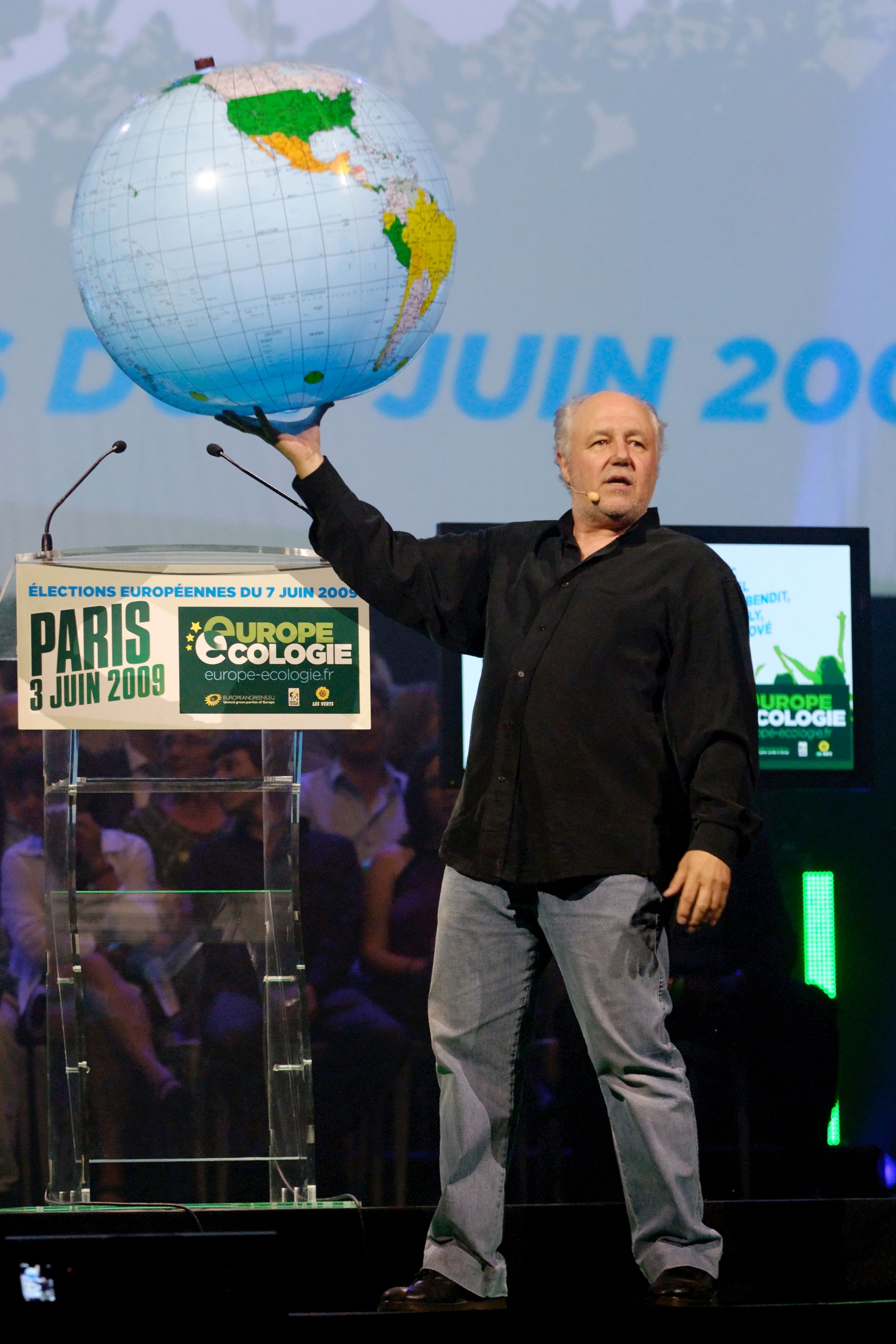 French humorist Marc Jolivet at the closing rally of Europe Écologie at the Zenith in Paris, on June, 3 2009. Campaign for the 2009 European elections in France.